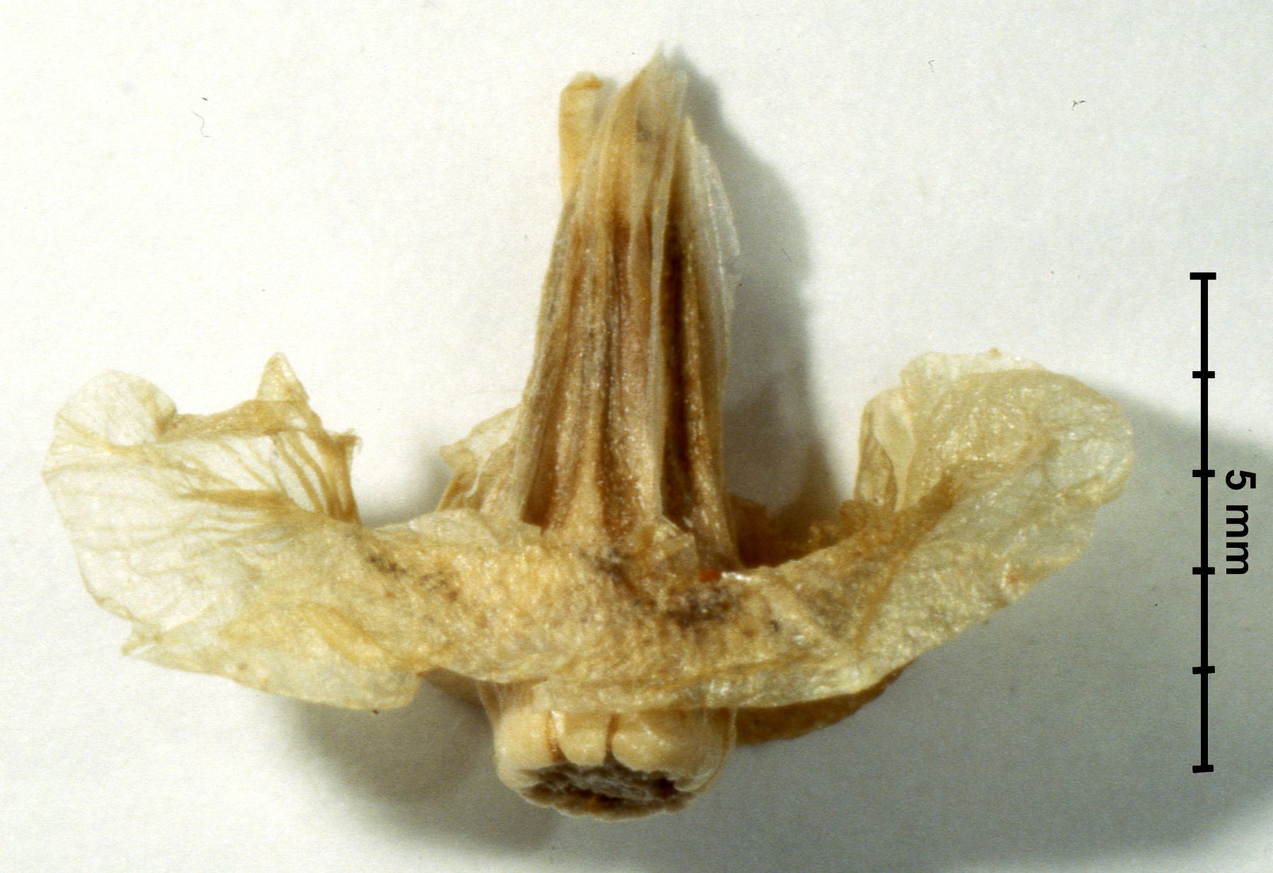 Fruit of Halothamnus beckettii, lateral view. Part of the Isotype. Herbarium specimen collected in Somalia by J.J.Beckett No. 702.